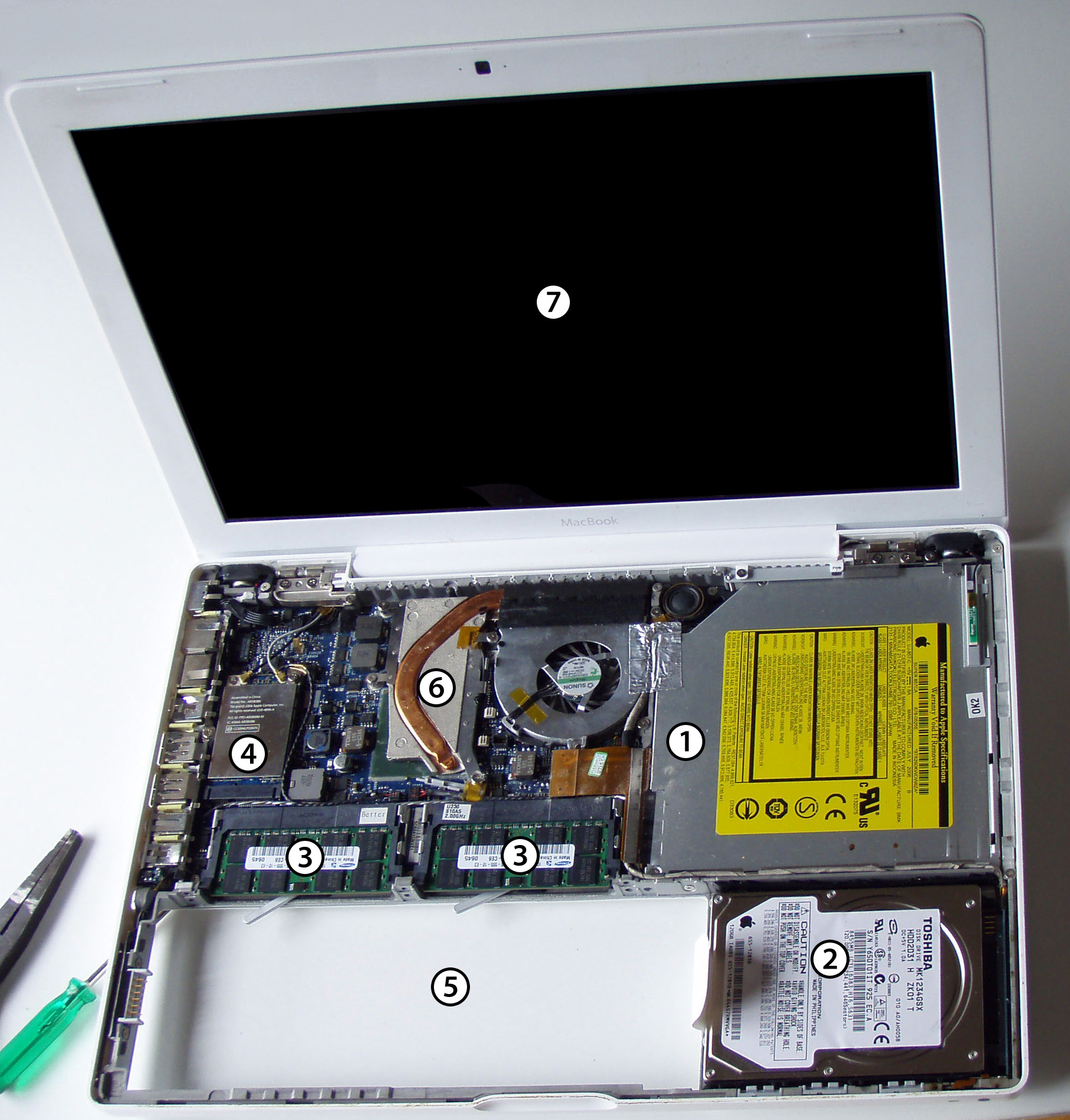 Optical Drive : Hard Disk Drive : RAM : Aiport Extreme card : Battery : Processor & chipset covered by heat pipe : 13.3" Screen